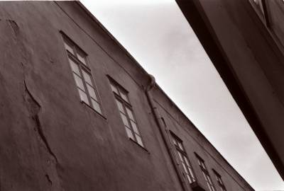 use of diagonal composition in photography